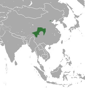 De Winton's Shrew (Chodsigoa hypsibia) range